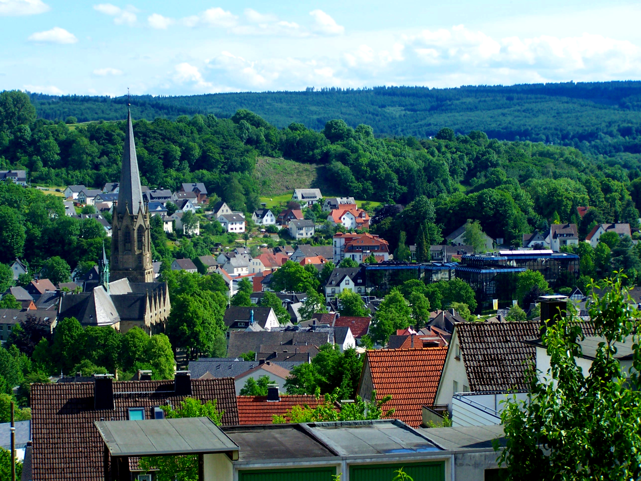 Panorama of Warstein (Germany, Sauerland) with St.-Pancrtatius-Church and "Warsteiner"-Brewery (Company building)